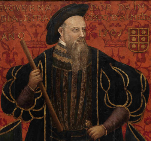 "Portrait of Dom Francisco de Almeida, Viceroy of Portuguese India" (after 1545), by Unknown. At the National Museum of Ancient Art, Lisbon.